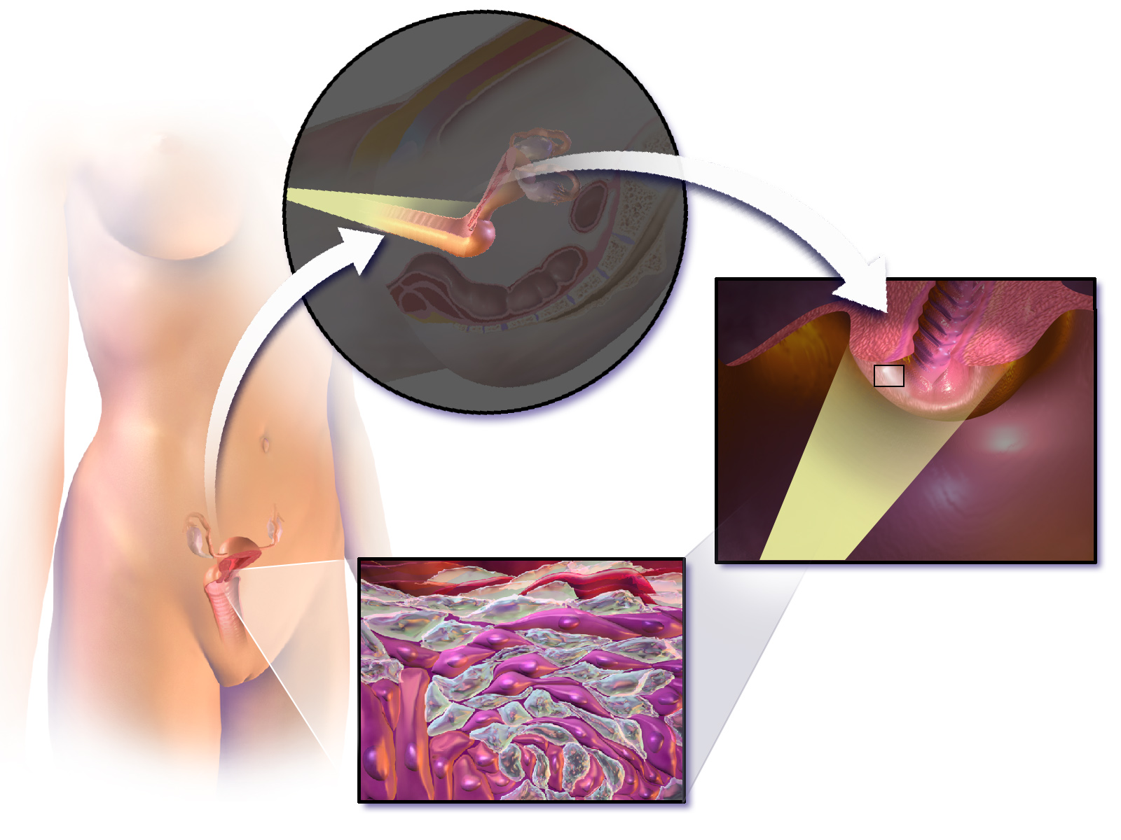 Illustration demonstrating a colposcopy.